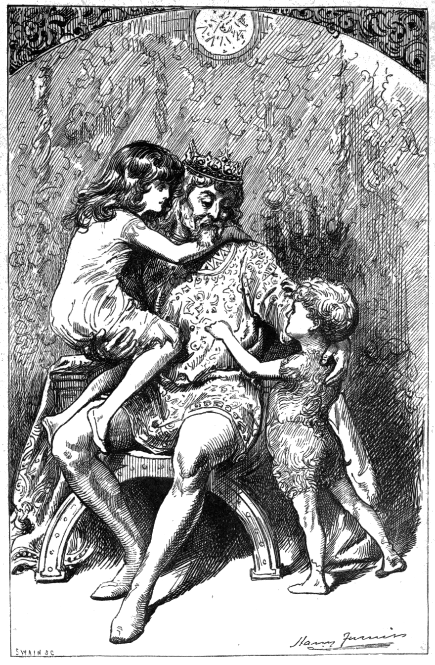 Illustration by Harry Furniss in Sylvie and Bruno